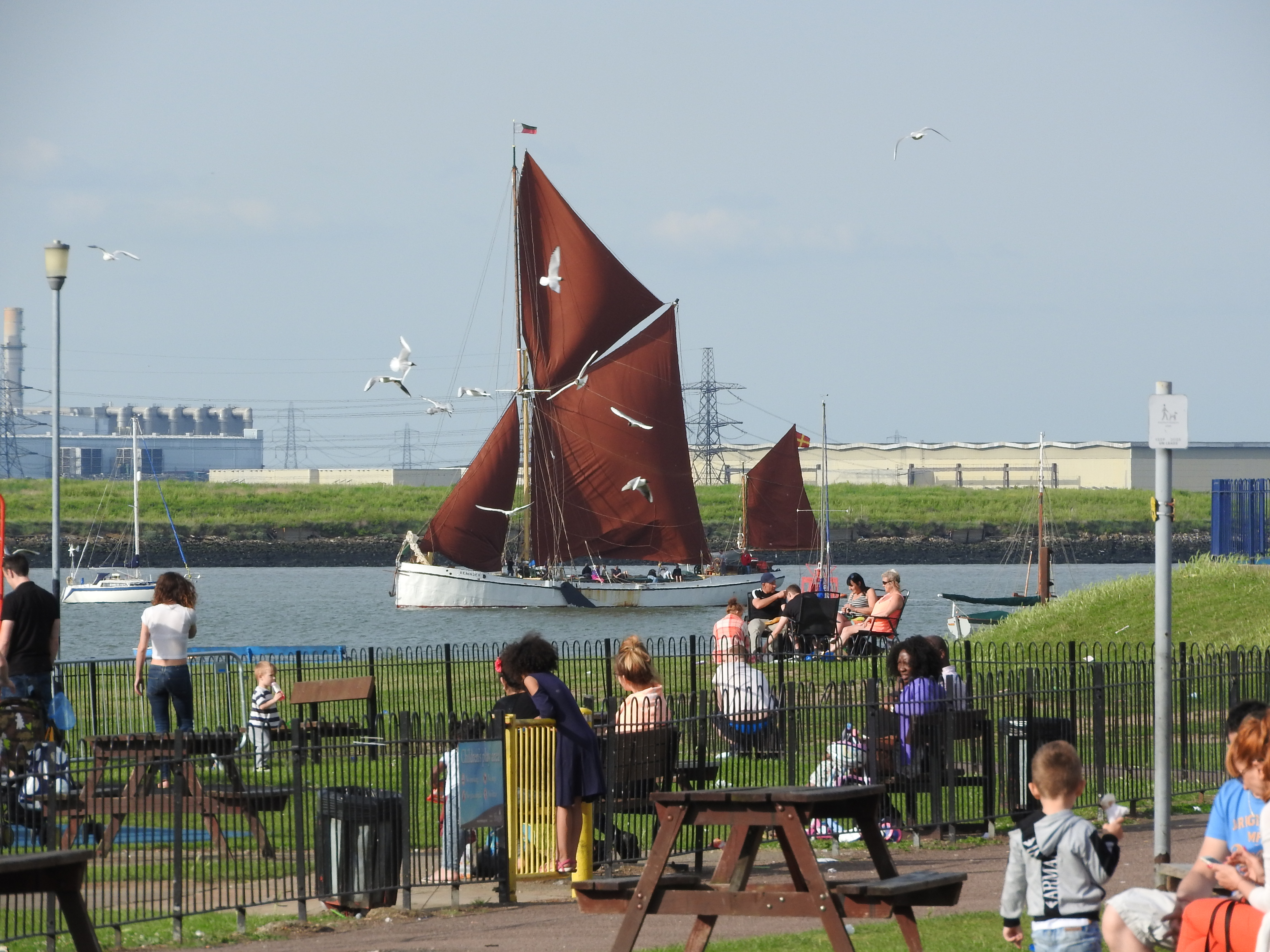 Thames barge competing in the 109th Medway Barge Sailing match, viewed from the shore at Gillingham Strand.